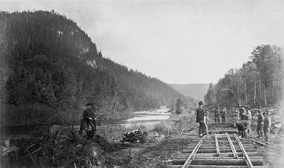 Quebec and Lake Saint-John Railway: Railroad Construction by a River